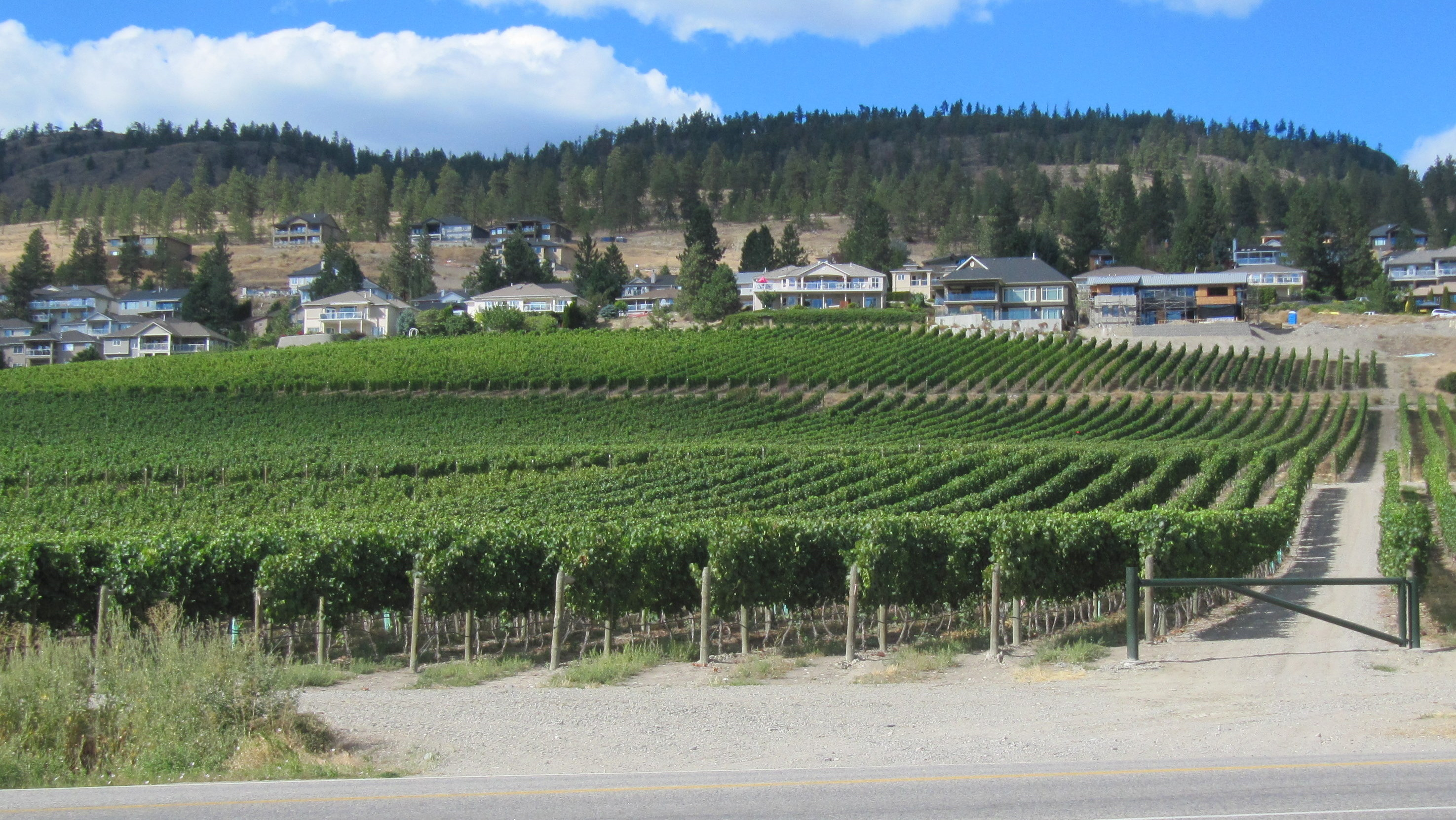 Vineyards at the Okanagan Lake, BC, Canada